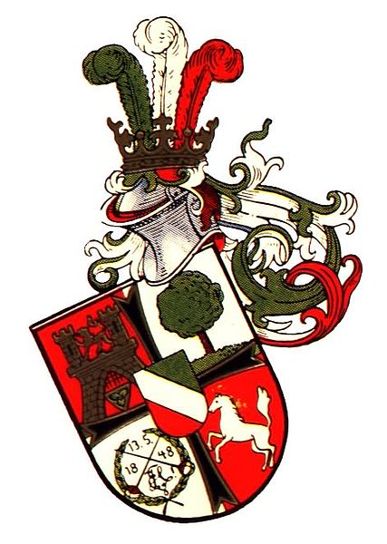 Das Akademische Deutschland, Michael Doeberl u. a., Berlin 1931-1932, Bd. 4. Die Wappen der deutschen Korporationen des Inn- und Auslandes